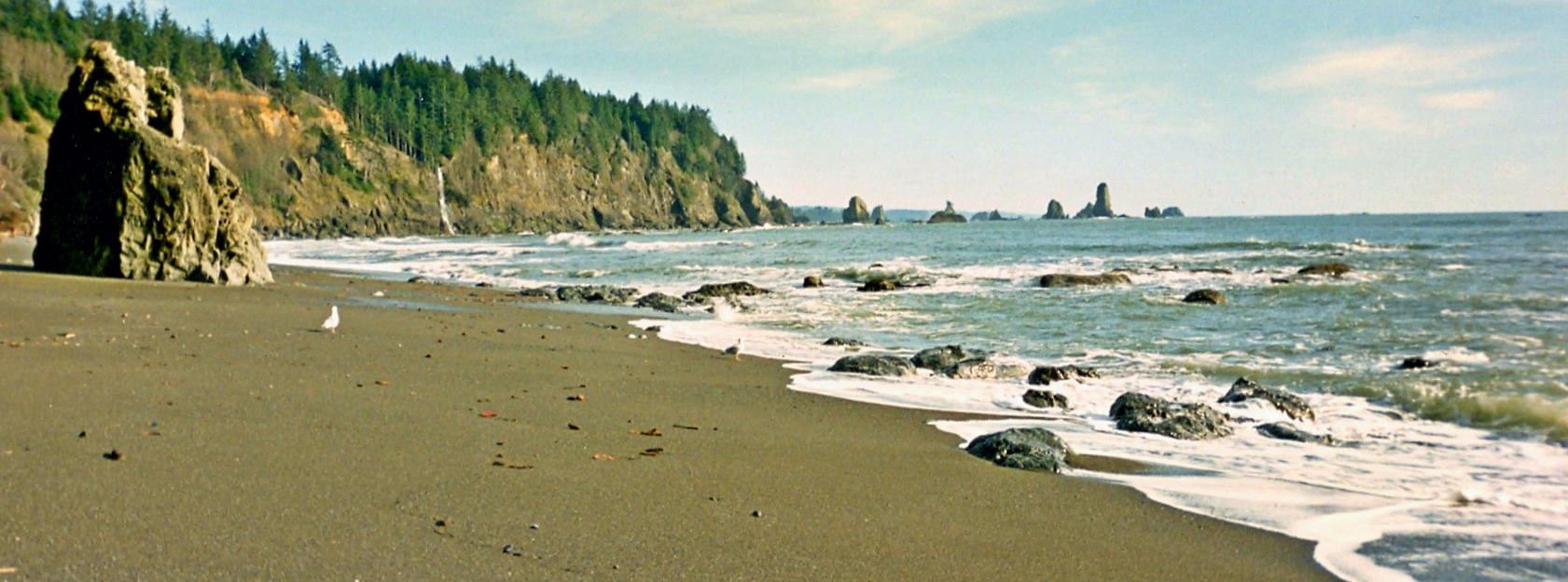 Third Beach, Olympic National Park, Washington coast. Annotations for Giants Graveyard and the waterfall.